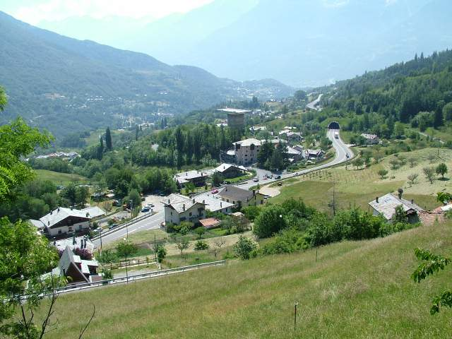 Overview of Gignod (Aosta Valley, Italy)